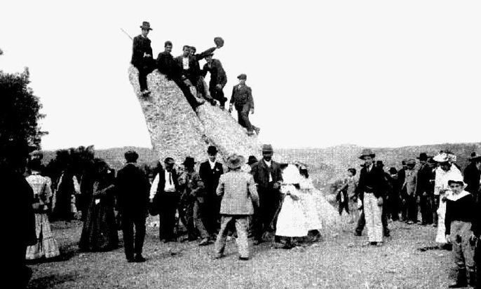 Visitors at the Pedras dos Mouras, a Neolithic dolmen near Belas in Portugal, around the beginning of the 20th Century